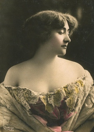 Madame Valentine de Saint-Point